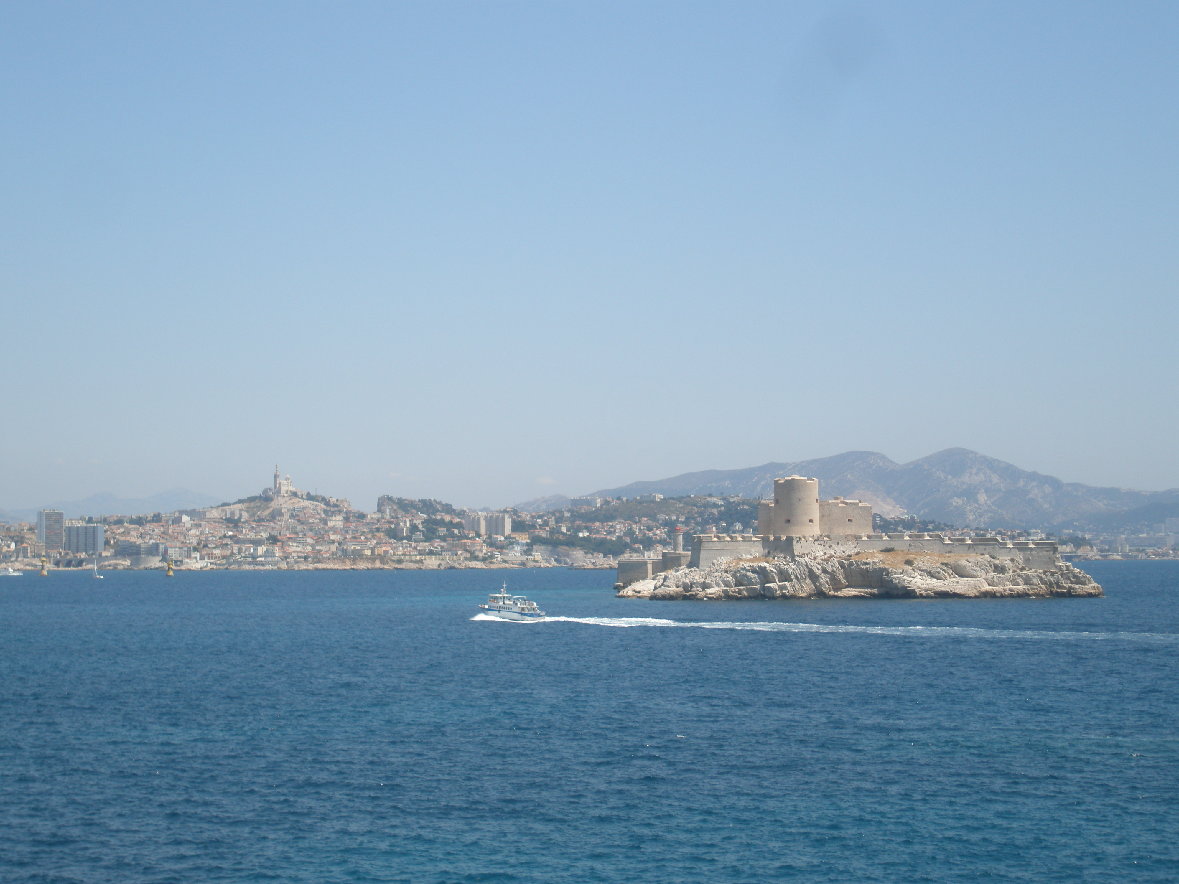 The If castle today with Marseille in the background.